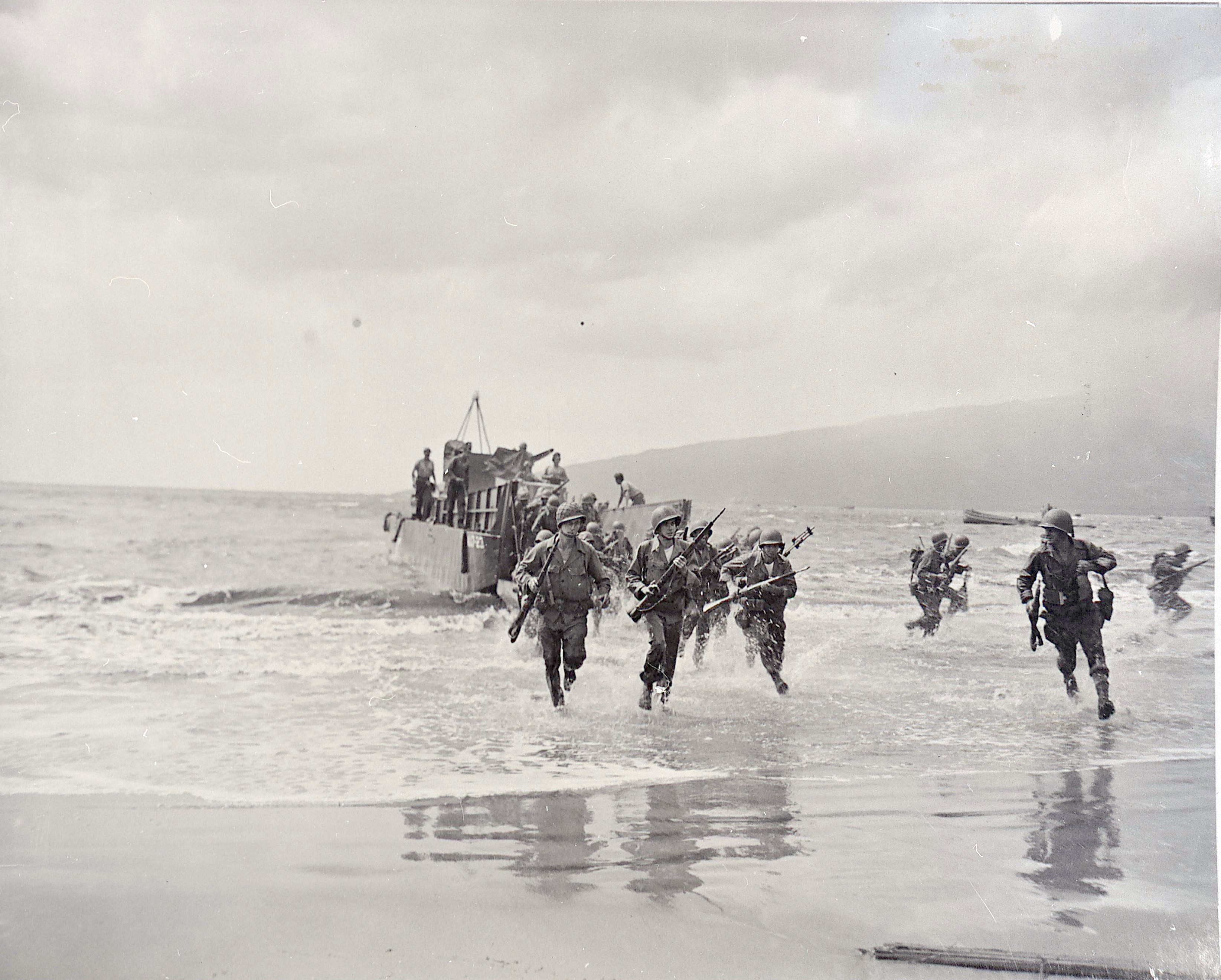 Marine Raiders in Operation at Makin, in the Pacific.